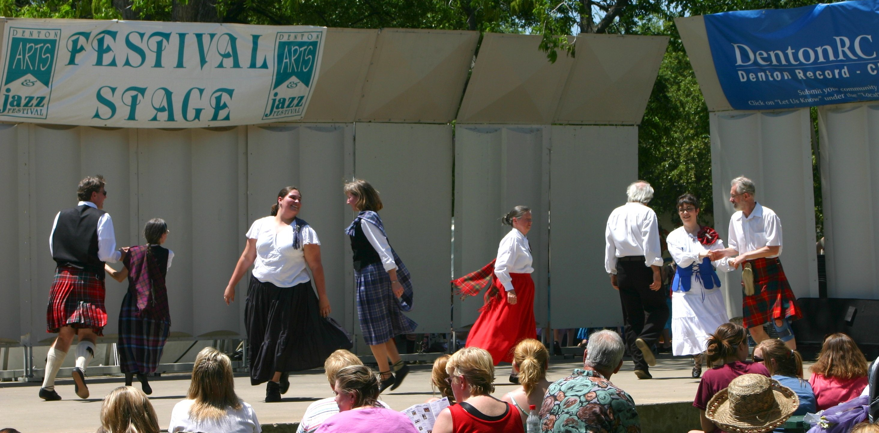 Celtic dancers performing at the 2007 Denton Arts and Jazz Festival